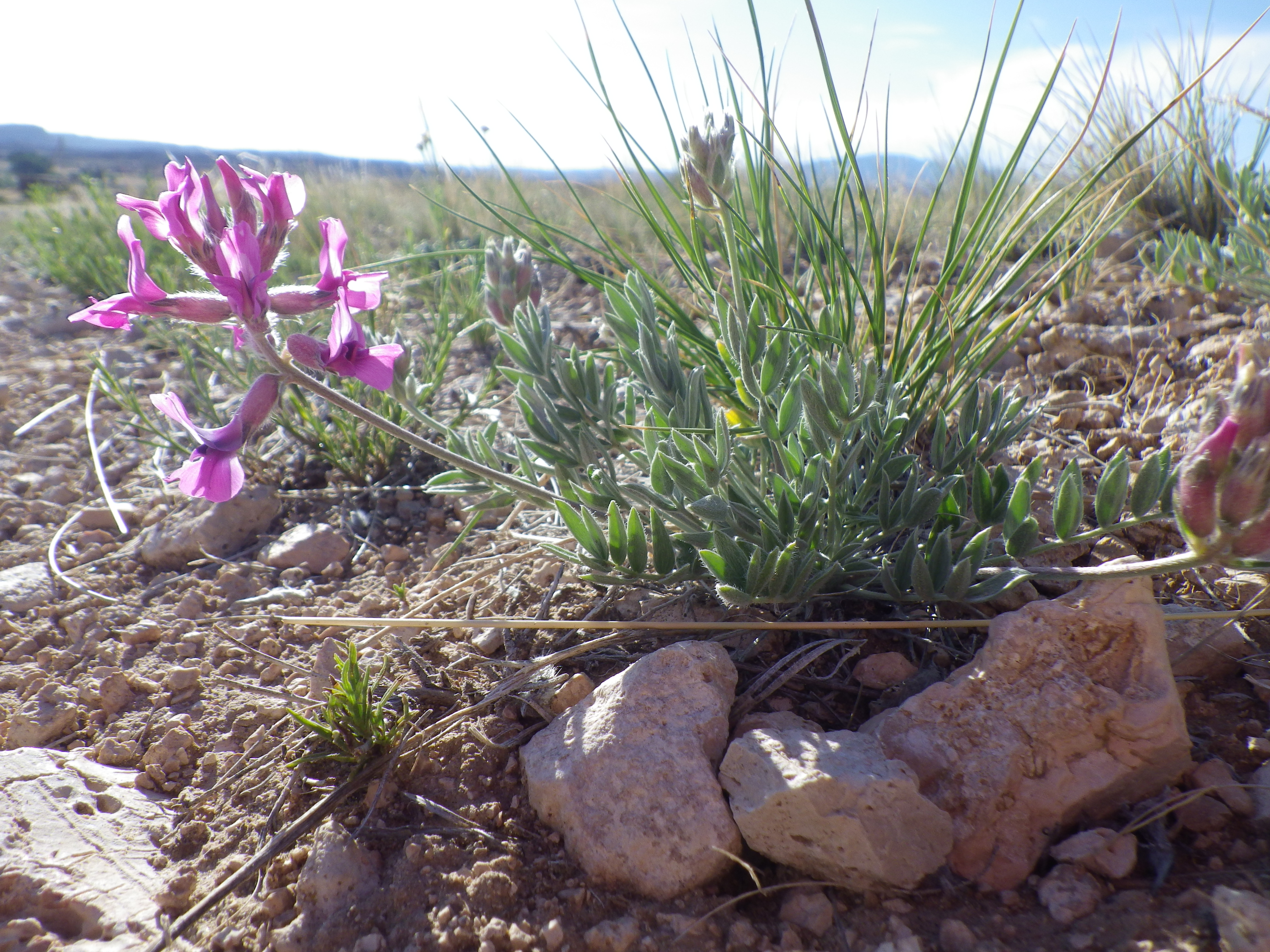 The genus Oxytropis seems to be more abundant and diverse in disturbed settings (e.g., roadsides, burrowing-mammal mounds) than in adjacent sagebrush steppe.